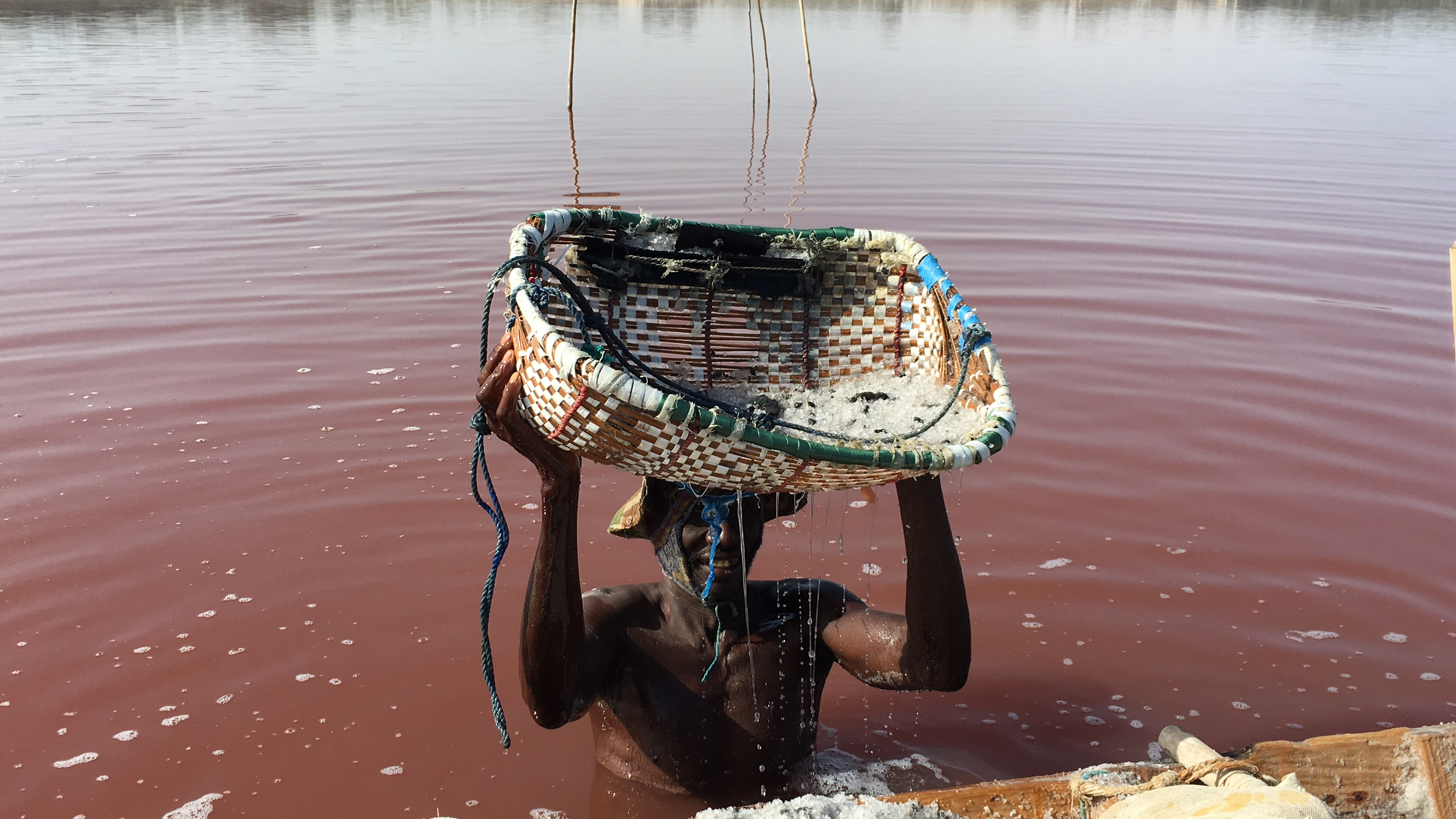 Lake Retba (Lac Rose), worker is digging the salt in the lake This is an image of "African people at work" from Senegal